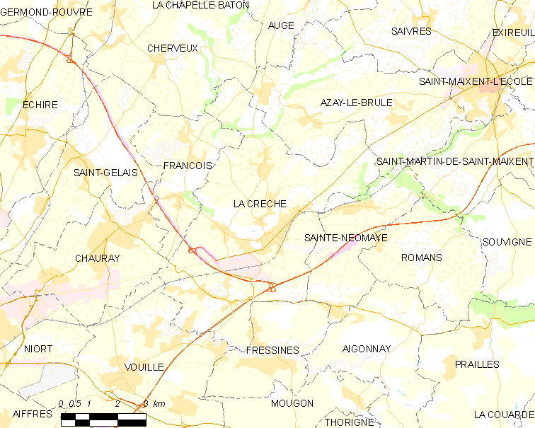 Map of French municipality La Crèche